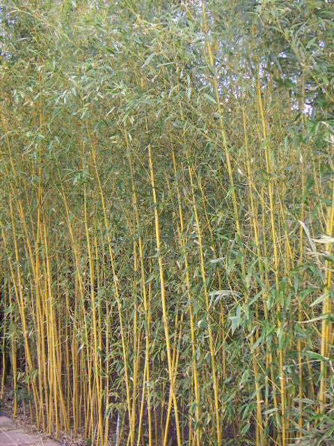 Phyllostachys aureosulcata 'Spectabilis Autor:Jordi Coll Costa 10:47, 14 May 2005 (UTC)